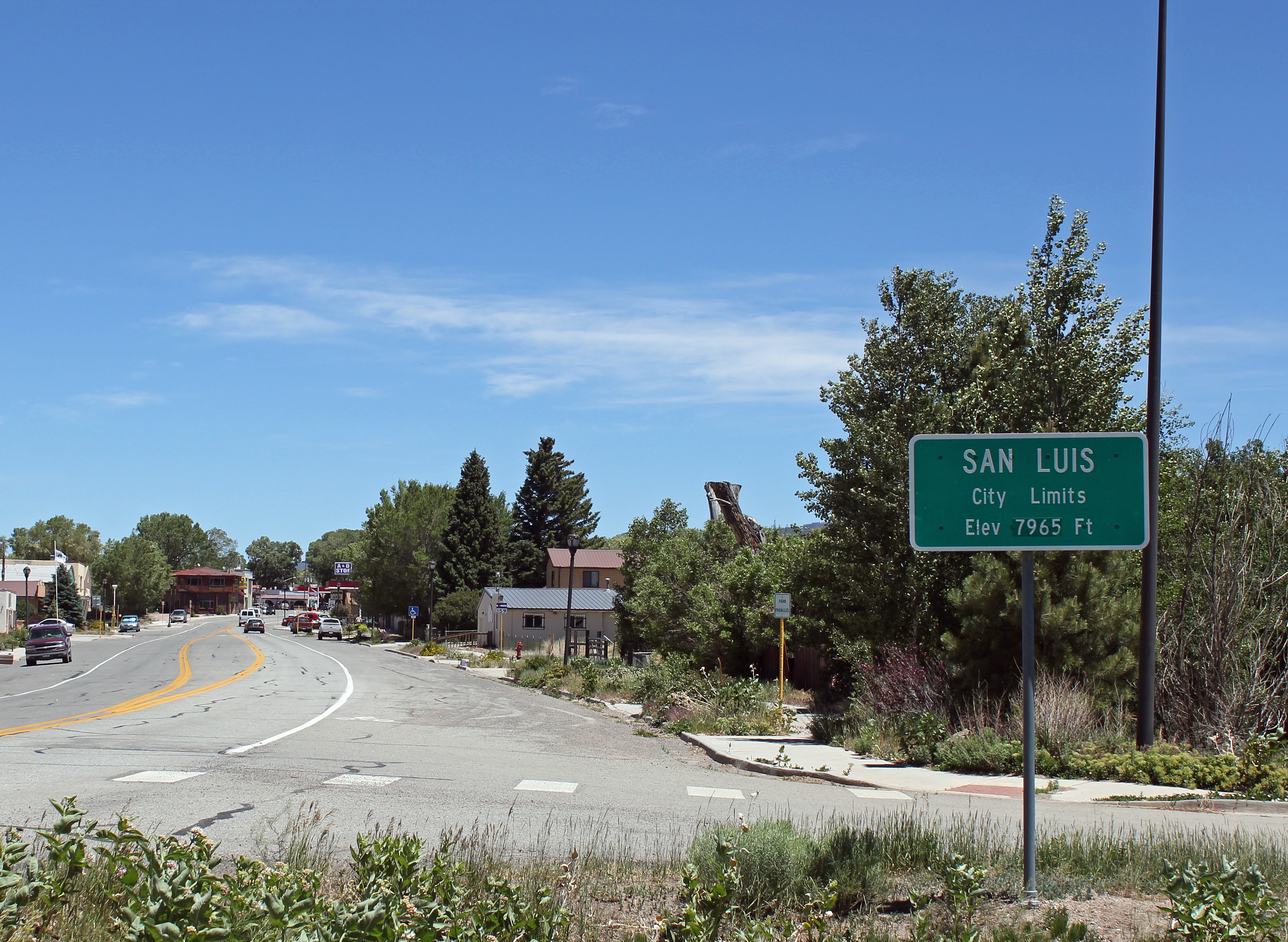 One of the city limit signs in San Luis, Colorado.